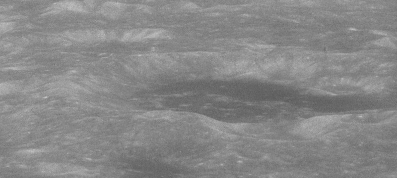 Highly oblique view of Apollonius, on the moon. Facing west.